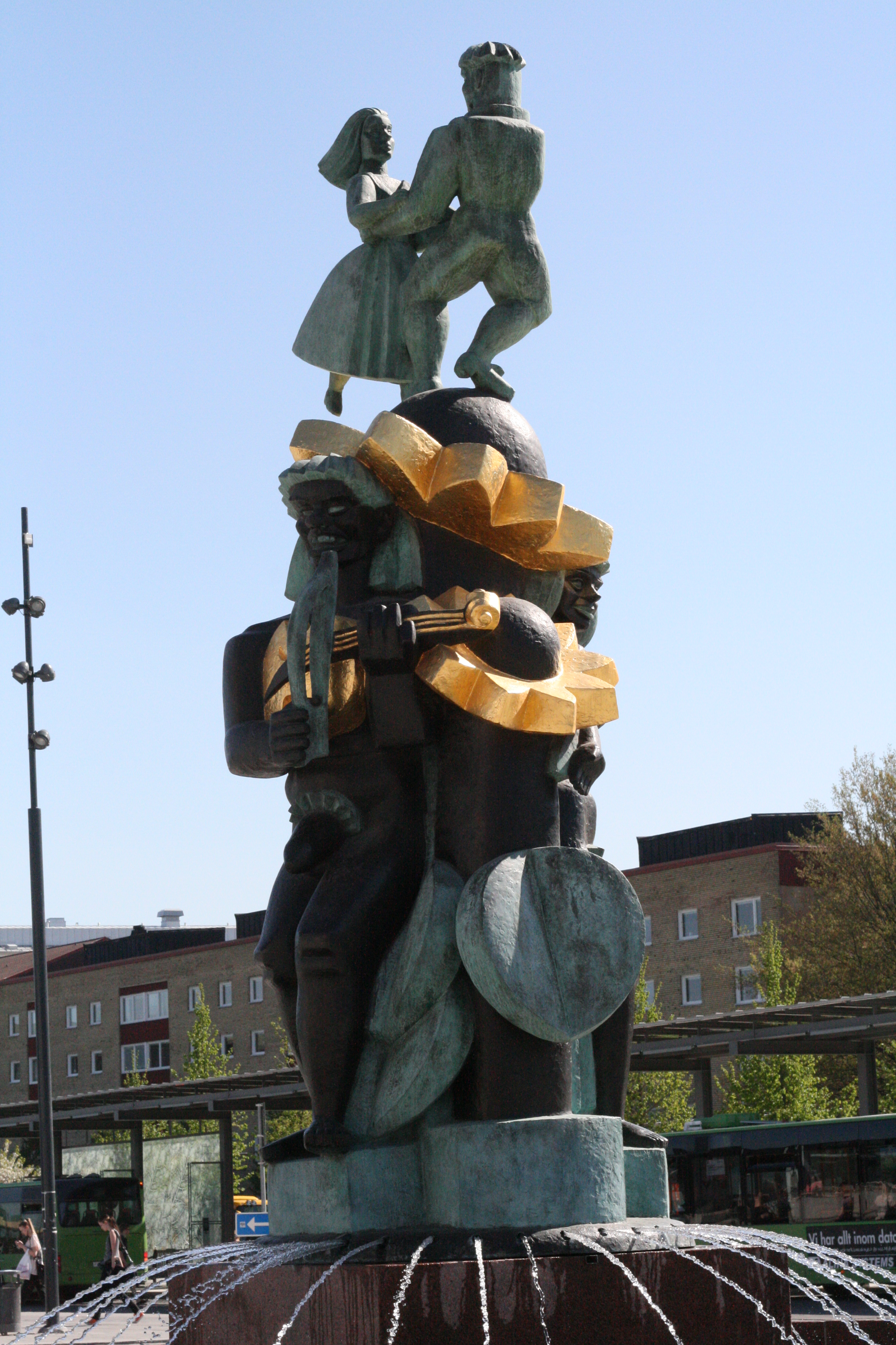 Näckens polska, statue and fountain by Bror Hjorth. Situated in front of Uppsala Central railway station.